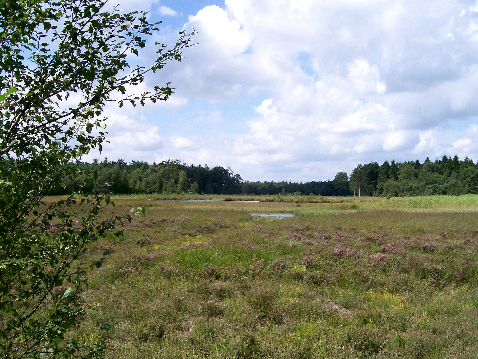 Poepedobbe, fen and pingo in the Bakkeveense Duinen